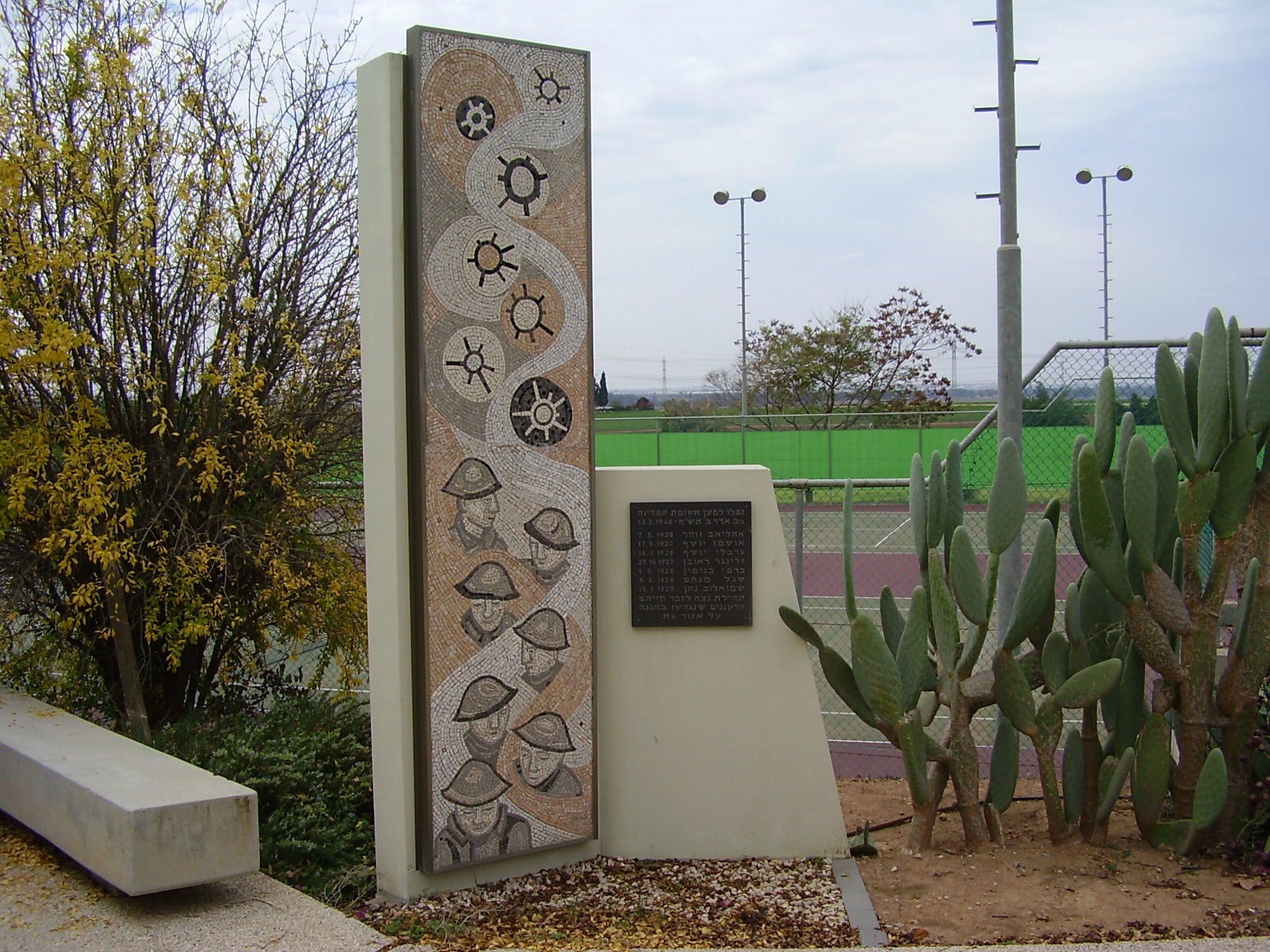 war memorial in kibutz gat, israel אנדרטה בקיבוץ גת לשבעת הנופלים בשיירת גת-גלאון במלחמת העצמאות